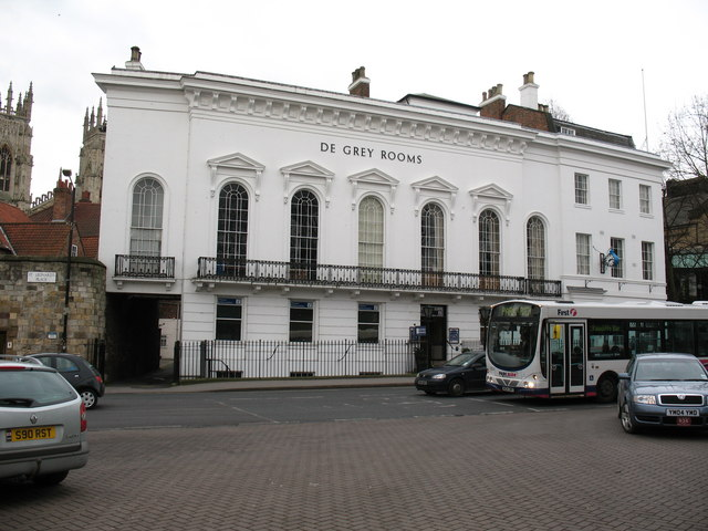 The De Grey Rooms When a section of the city wall between Bootham Bar and the river was demolished in the 1830's, a new street [St Leonard's Place] was laid out to allow better access to the city centre. The De Grey Rooms were built on this street in 1841/2 as an officers mess for the Yorkshire Hussars, with a large assembly/ballroom on the first floor. The city's tourist information centre is now on the ground floor.